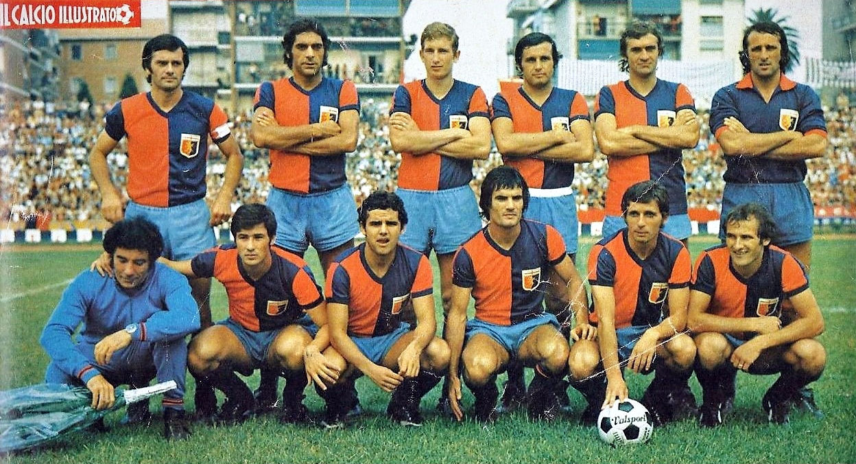 A line-up of Genoa 1893 in the 1972–73 season.